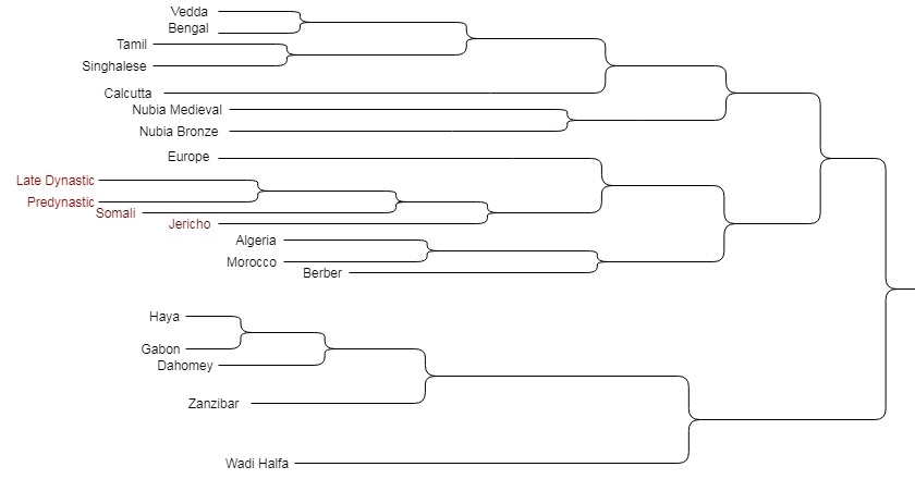 Euclidean distance dendrogram based on C scores for the constituent subsamples of the African and Indian (South Asian) regional clusters compared with samples from Bronze Age Jericho and up the Nile valley to Somalia. Clines and Clusters Versus “Race:” A Test in Ancient Egypt and the Case of a Death on the Nile C. LORING BRACE, DAVID P. TRACER, LUCIA ALLEN YAROCH, JOHN ROBB, KARI BRANDT, AND A. RUSSELL NELSON